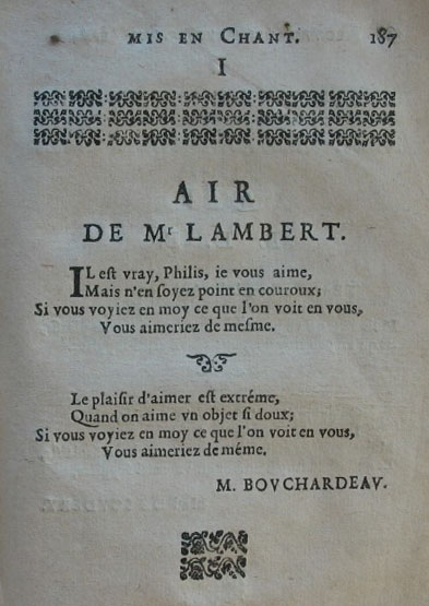 A page of B.de B. "Recueils des plus beaux vers mis en chant" showing an air by Bouchardeau.